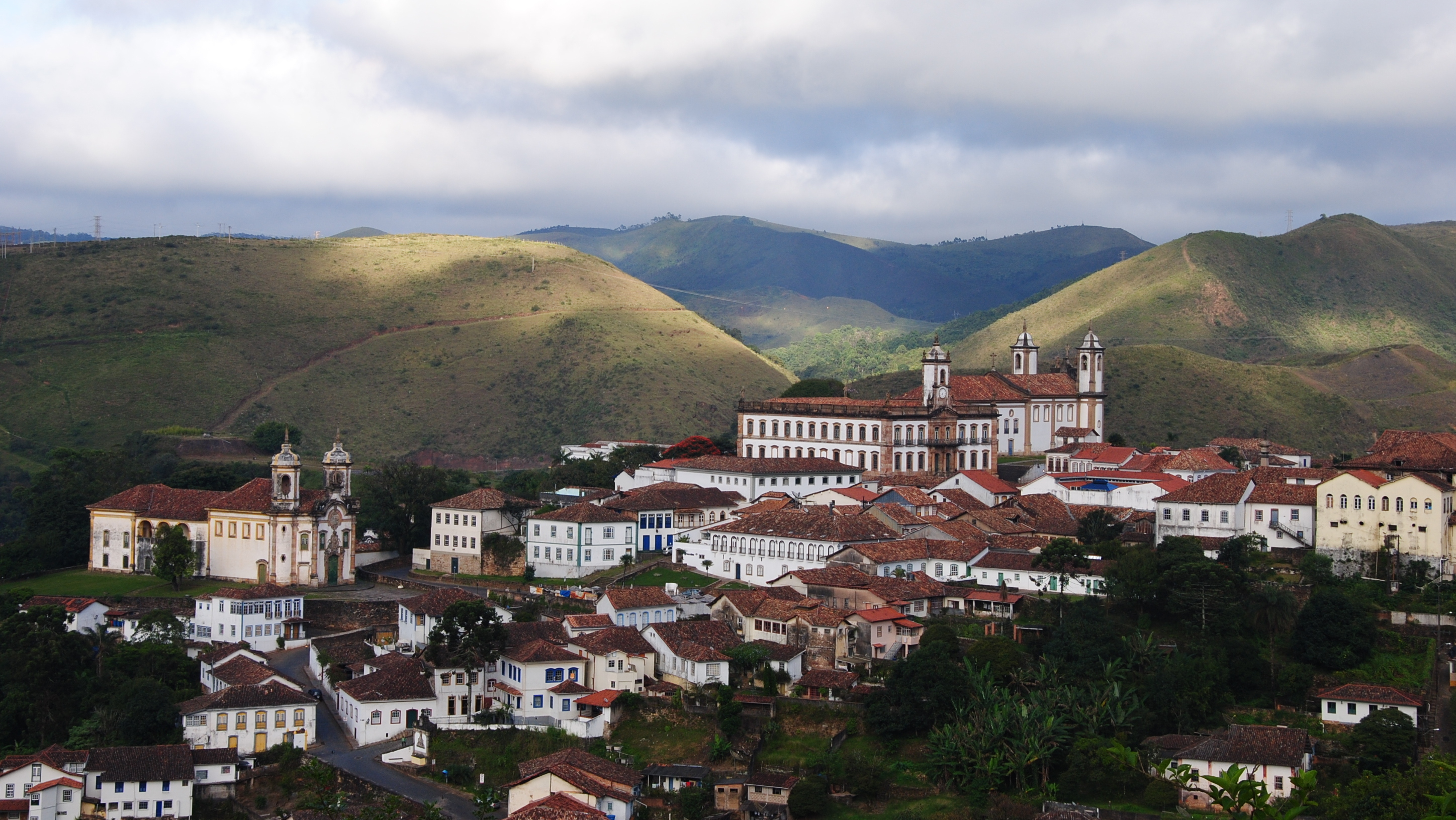 Panorama of the Ouro Preto Historical Centre, Minas Gerais state, Brazil.